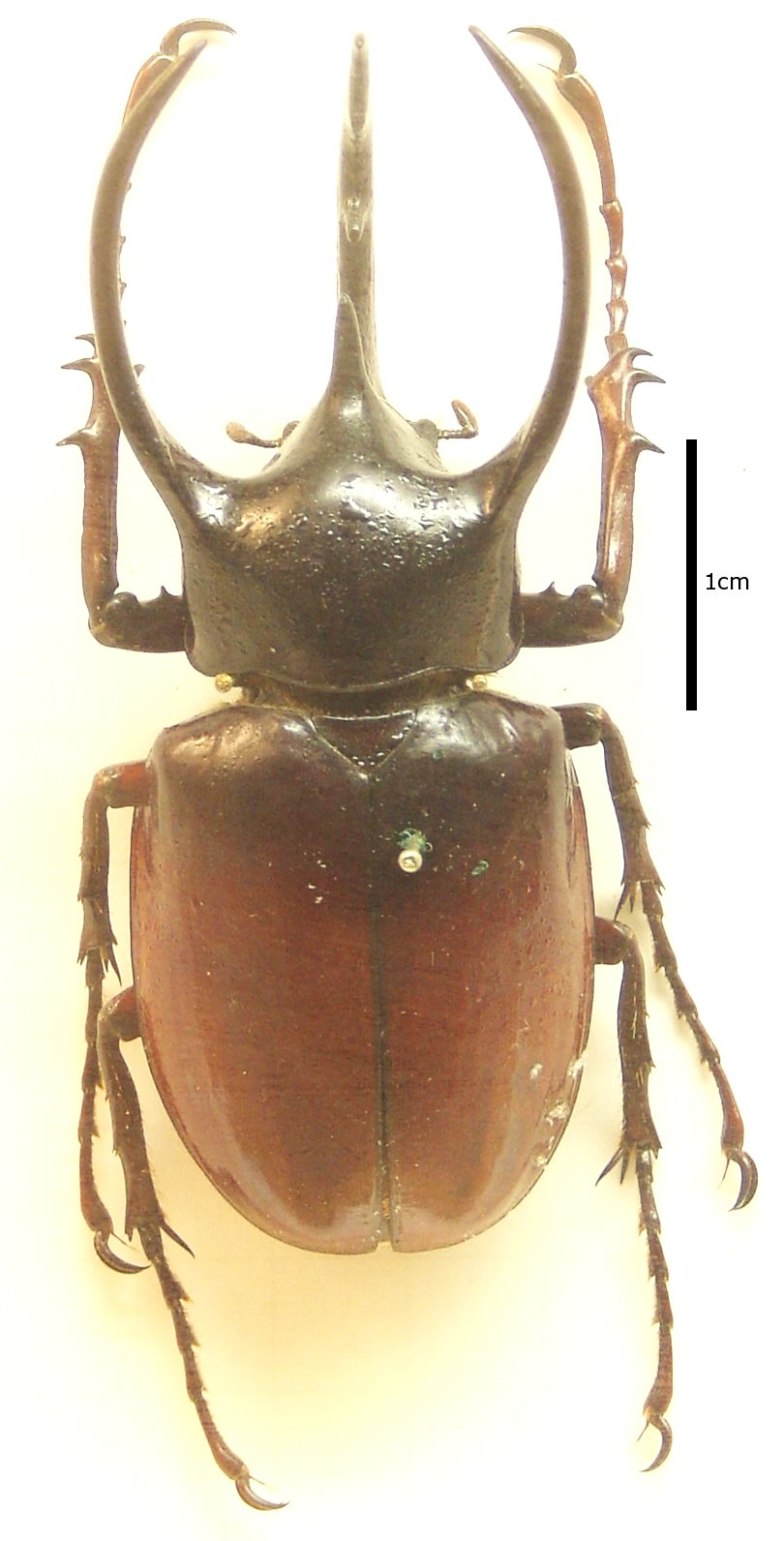 Chalcosoma atlas (Scarabaeidae), mounted specimen from Sunda Islands.